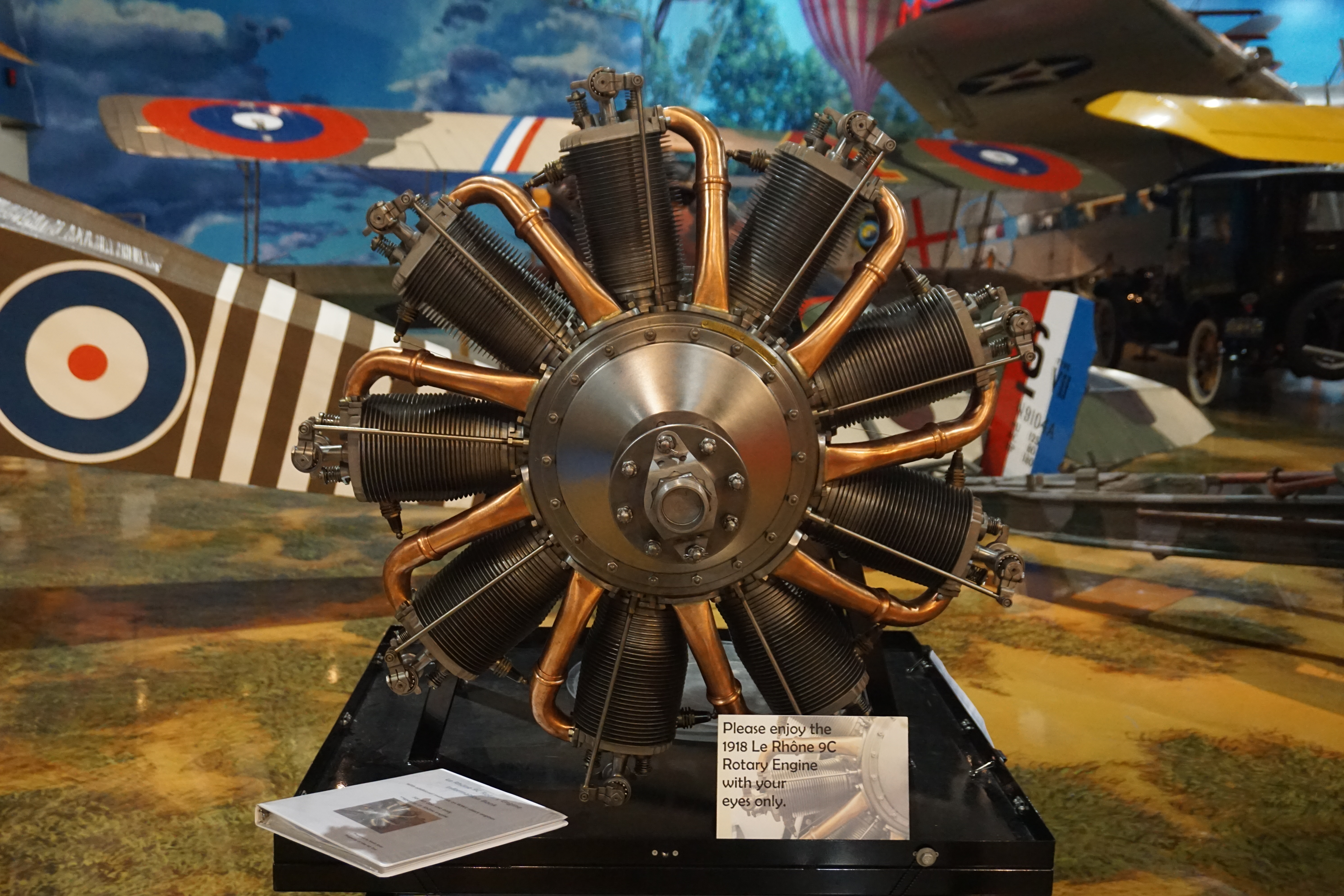 A Le Rhône 9C on display at the Air Zoo at Kalamazoo/Battle Creek International Airport in Portage, Michigan (United States).